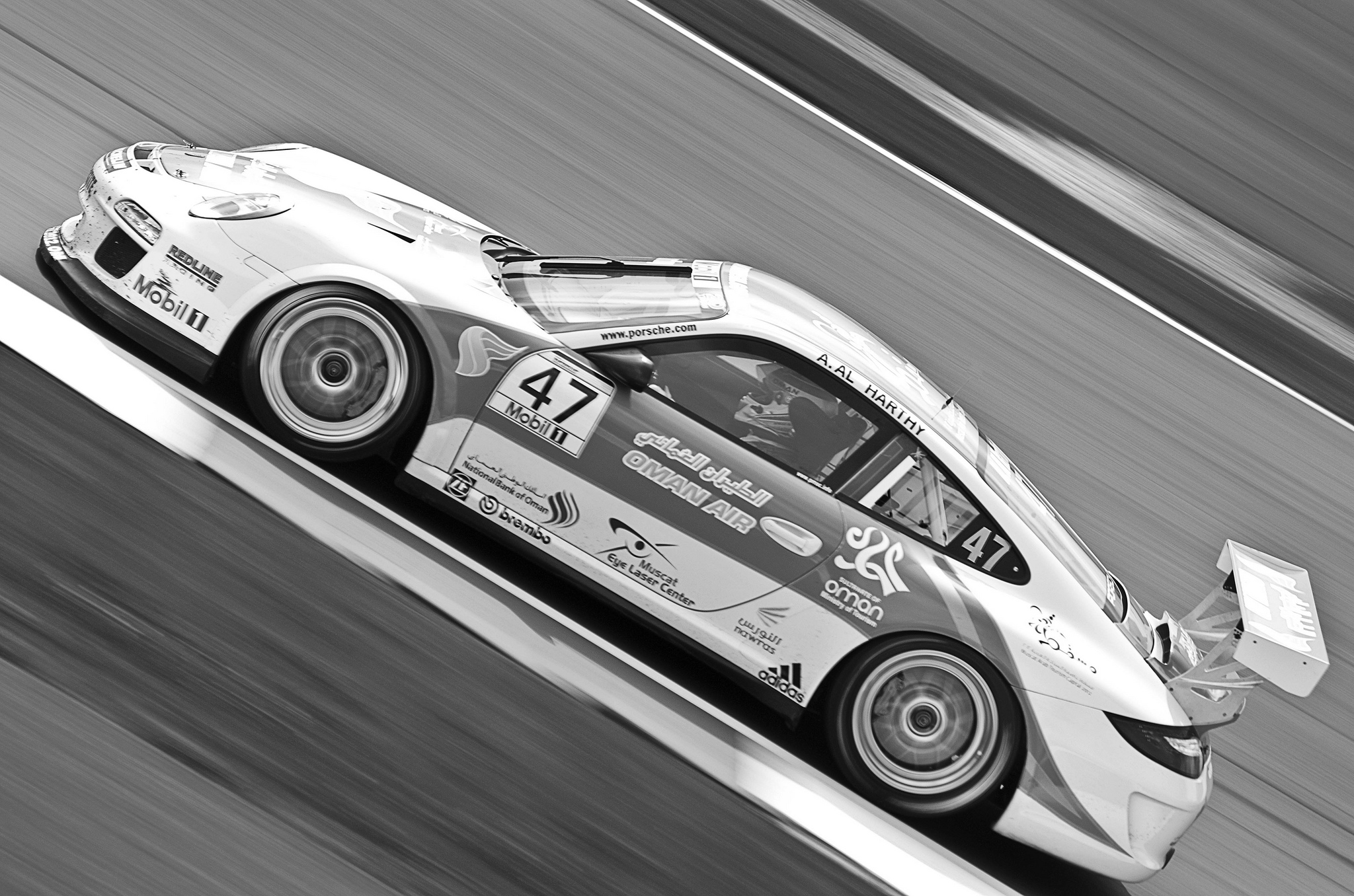 Date Taken:- 08/07/12 Image Shows:- Almad Al Harthy from Oman drives his Oman Air Redline Racing Porsche in the Porsche Mobil1 Supercup race at the 2012 Formula One (F1) Santander British Grand Prix at Silverstone in Northampton, United Kingdom (UK).